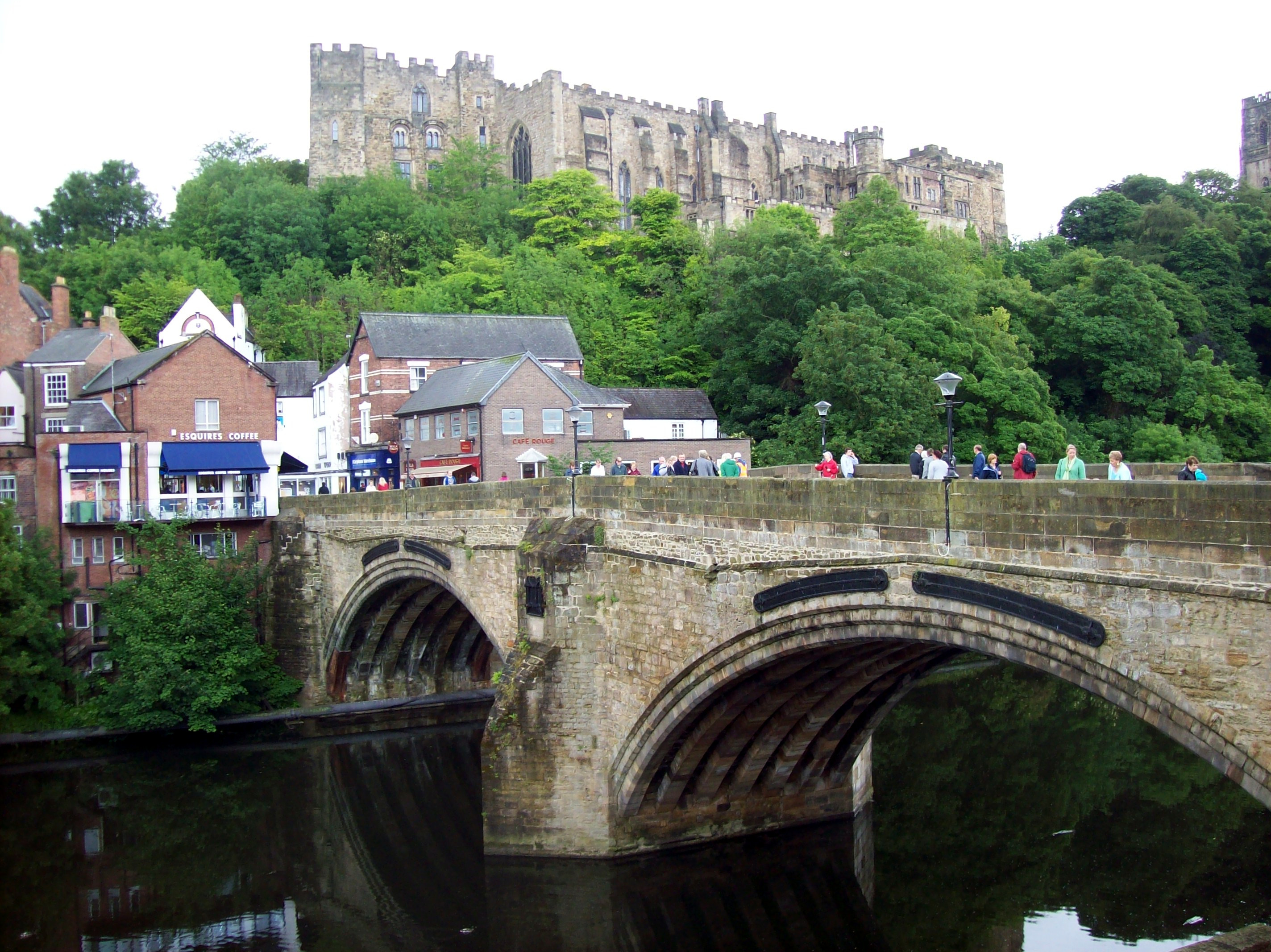 Durham Castle towering over Framwellgate Bridge leading to the centre of Durham City. The bridge spanning the River Wear dates from the 15 th century, the Castle predating it by 300 years or so is now part of the University of Durham.